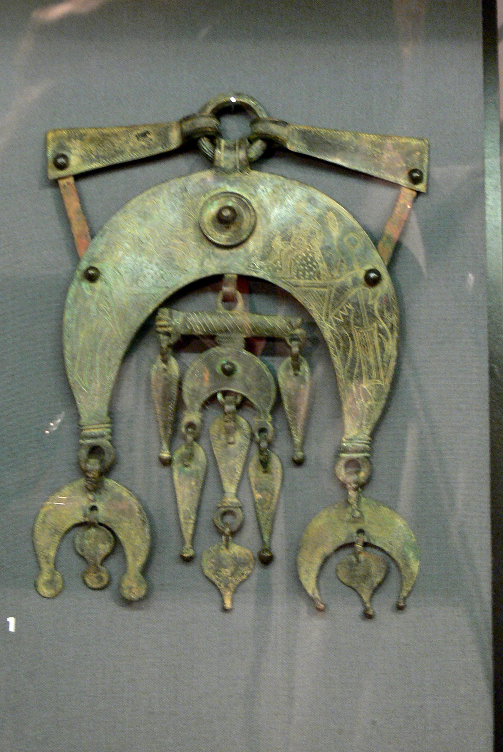 Museum Carnuntinum ( Lower Austria ). Pectoral as part of horse equipment ( 1st century ).